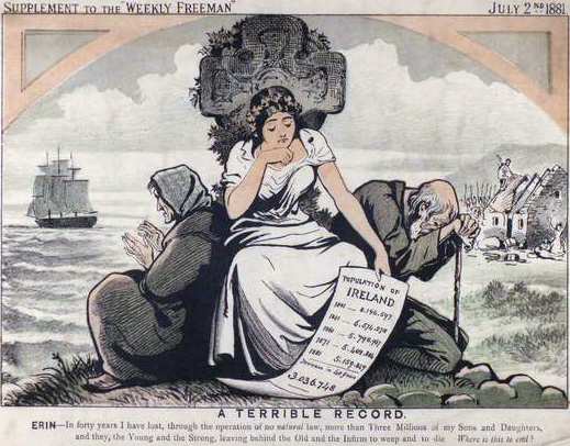 Cropped/ contrast-enhanced/ colour-altered version of File:A_terrible_record_John_Johnson_political_&_satirical.jpg. See that file's description for further details. Caption from bottom of picture: "ERIN- In forty years have lost, through the operation of no natural law, more than Three Million of my Sons and Daughters, and they, the Young and the Strong, leaving behind the Old and Infirm to weep and to die. Where is this to end?" Shelfmark of the original item in the John Johnson Collection: Political Cartoons 3 (122)